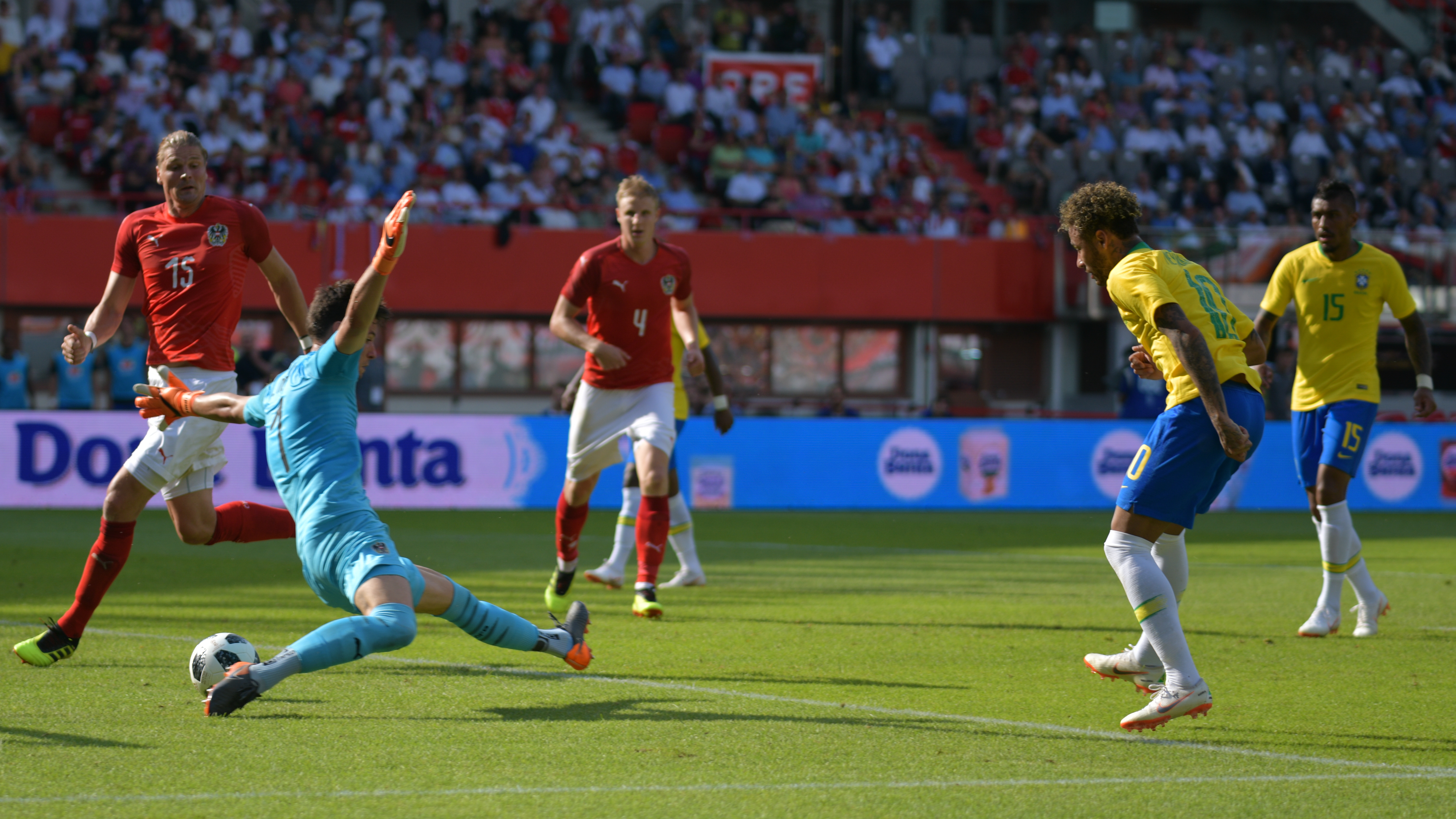 FIFA Friendly Match Austria vs. Brazil 2018/06/10 in Vienna/Ernst-Happel-Stadium. Picture shows Neymar (BRA) scoring the 2:0